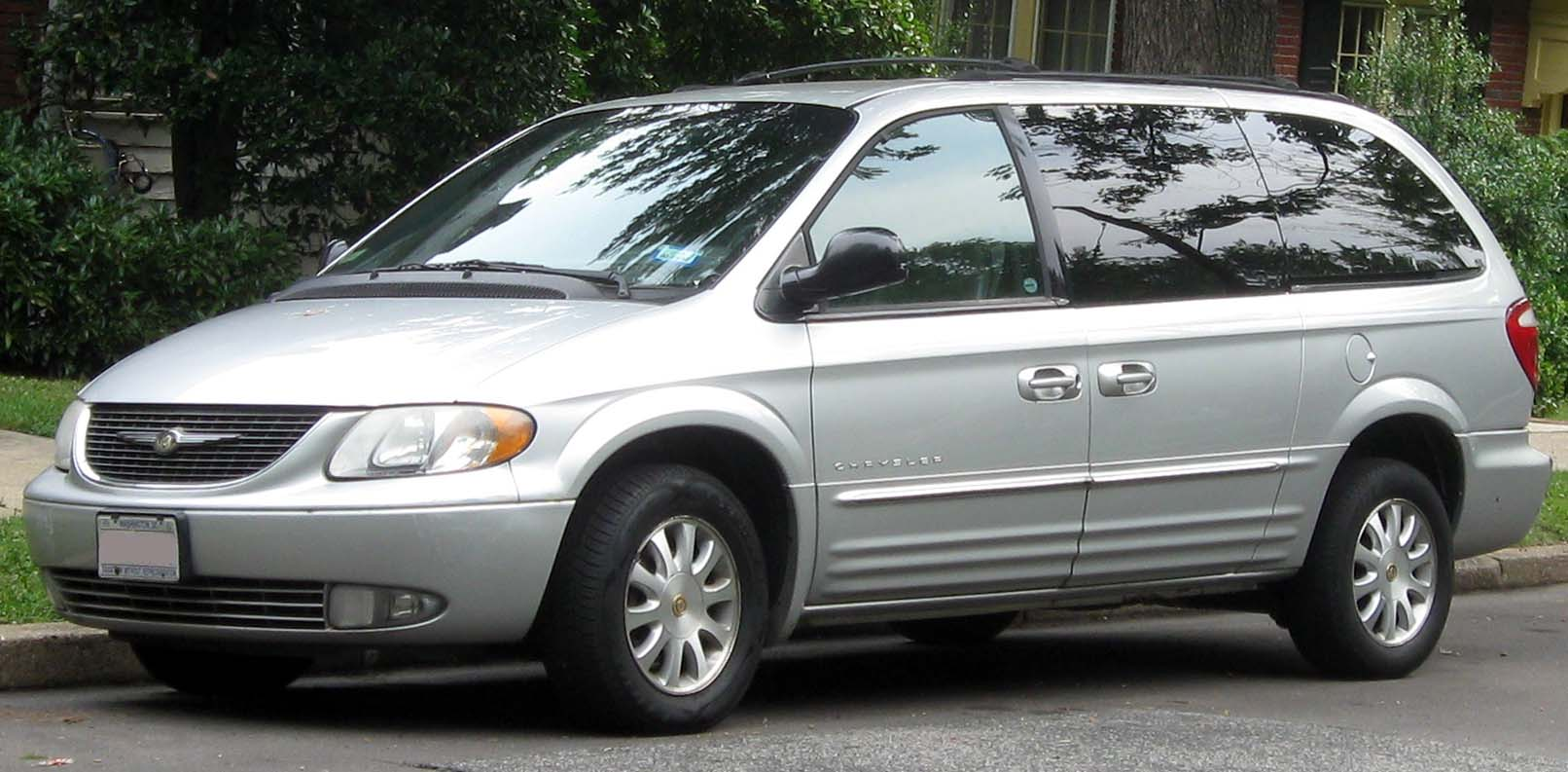 2001 Chrysler Town & Country photographed in Washington, D.C., USA.